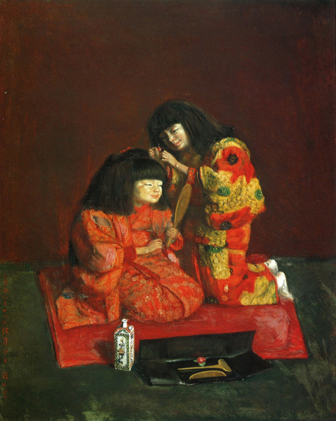 Two Reikos, by Kishida Ryusei, Senoku Hakukokan, Kyoto, Japan